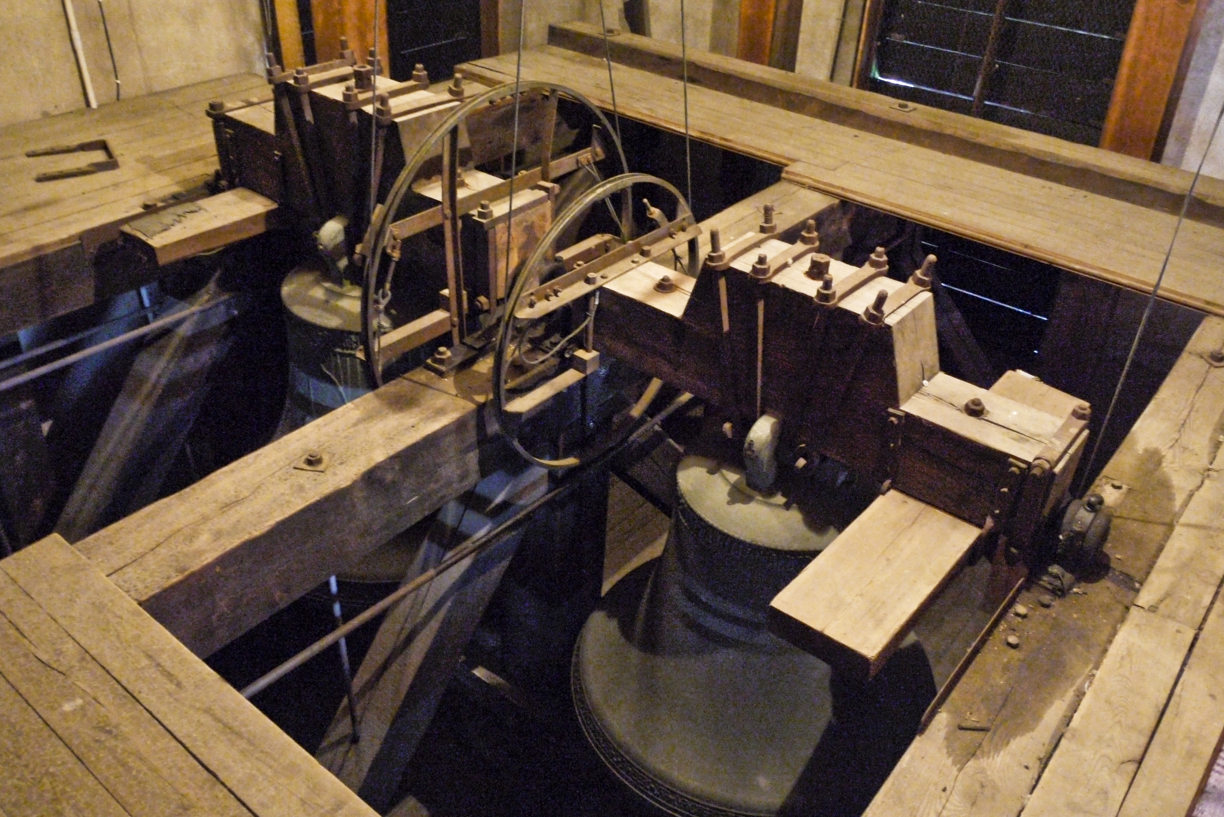 Bureå church, Diocese of Luleå, Skellefteå kommun, Bureå, Sweden. Church bells.